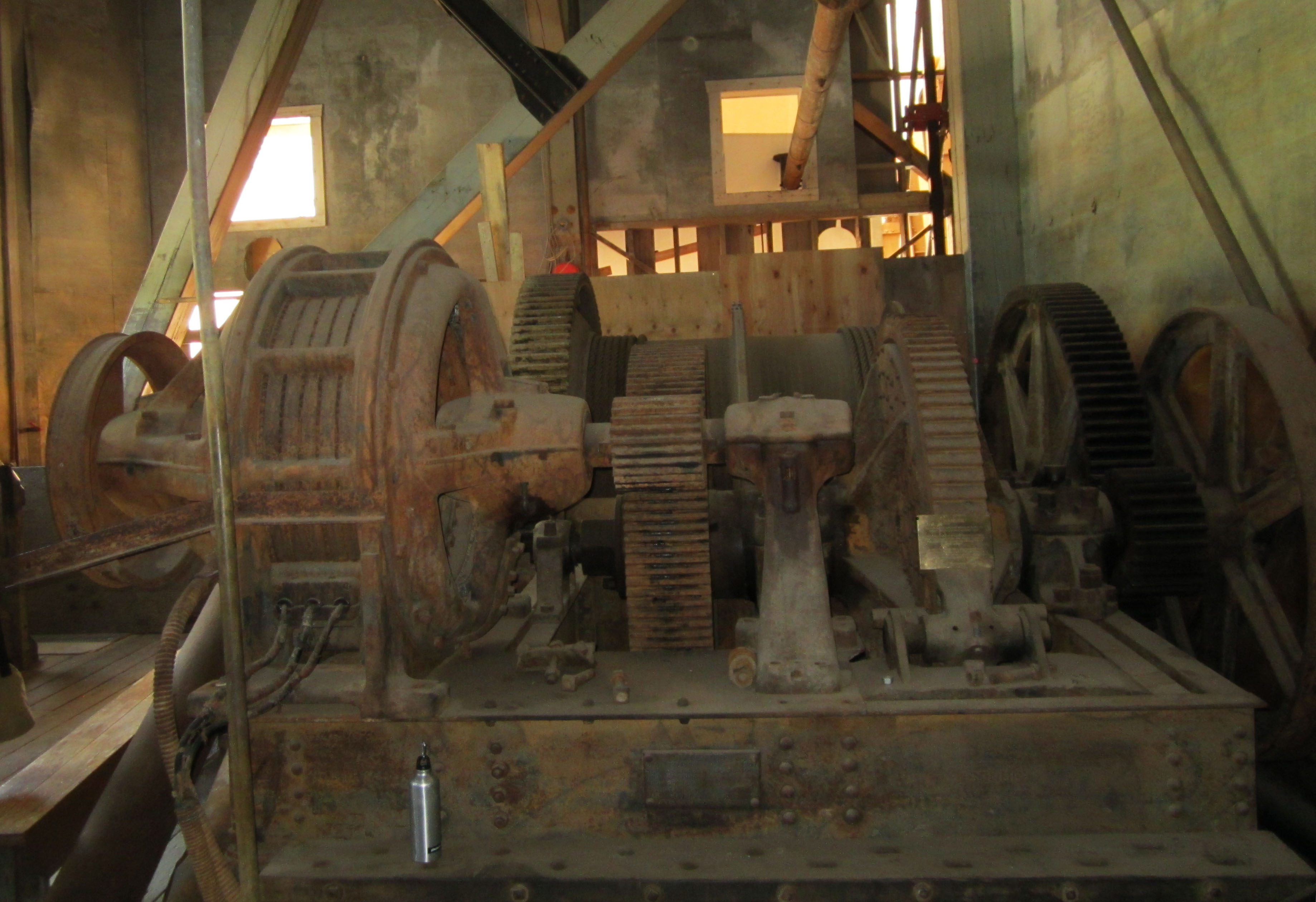 An electric motor inside Dredge No. 4.